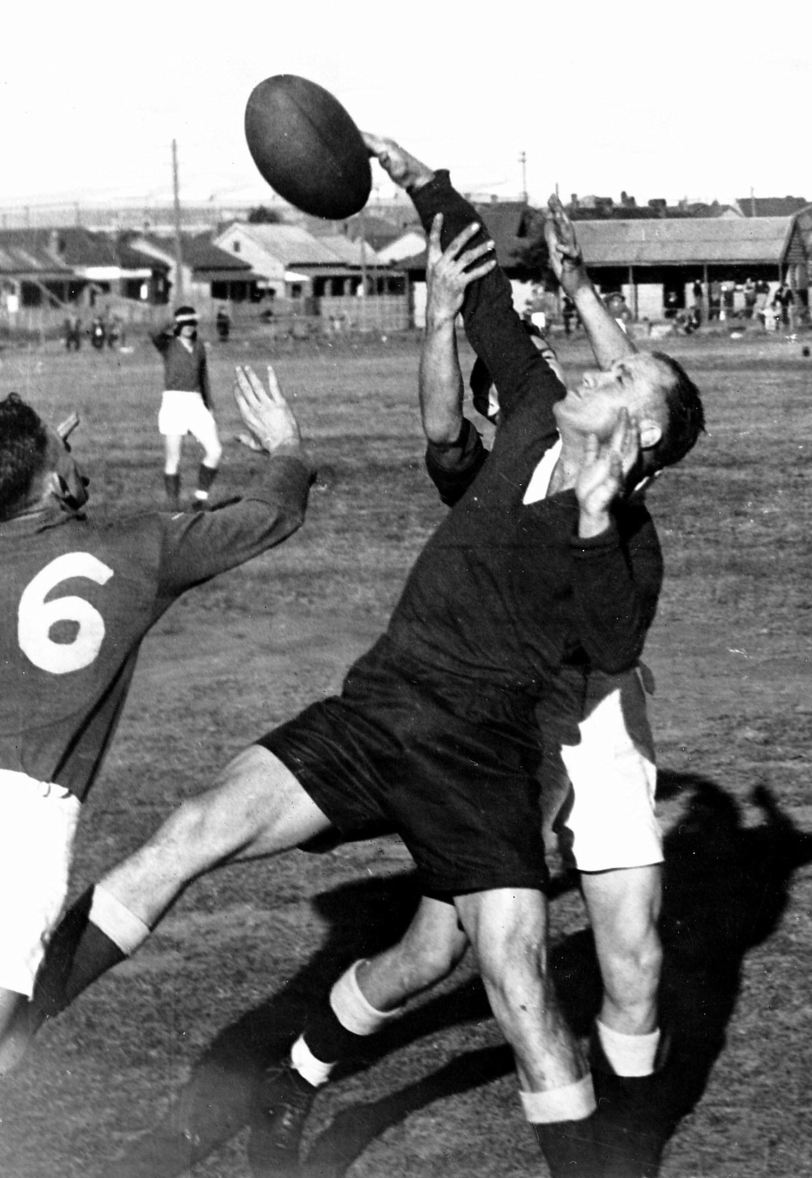 1947 Newcastle v South Sydney match. Ron McCann in action.